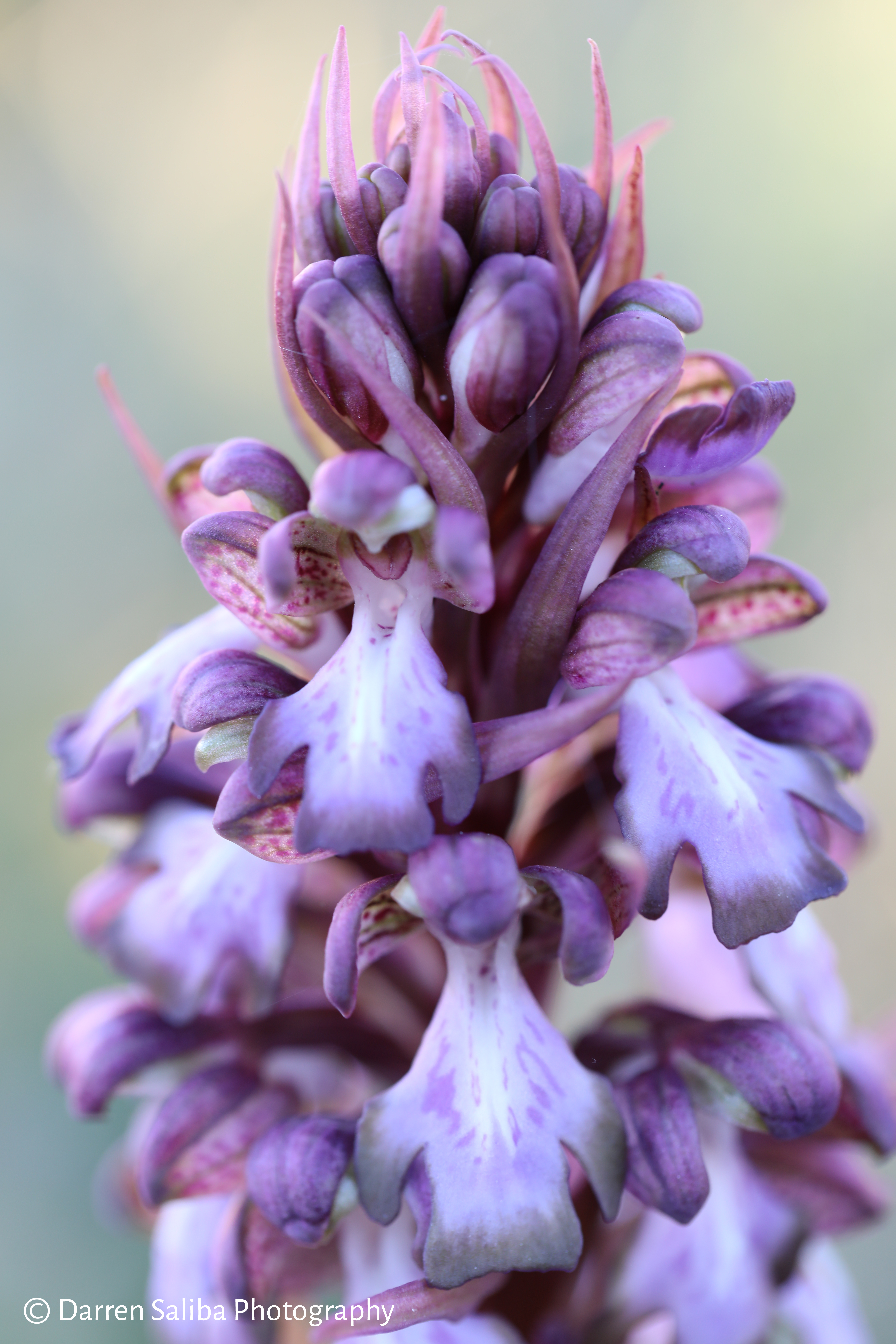 Flora at Il-Majjistral Nature and History Park